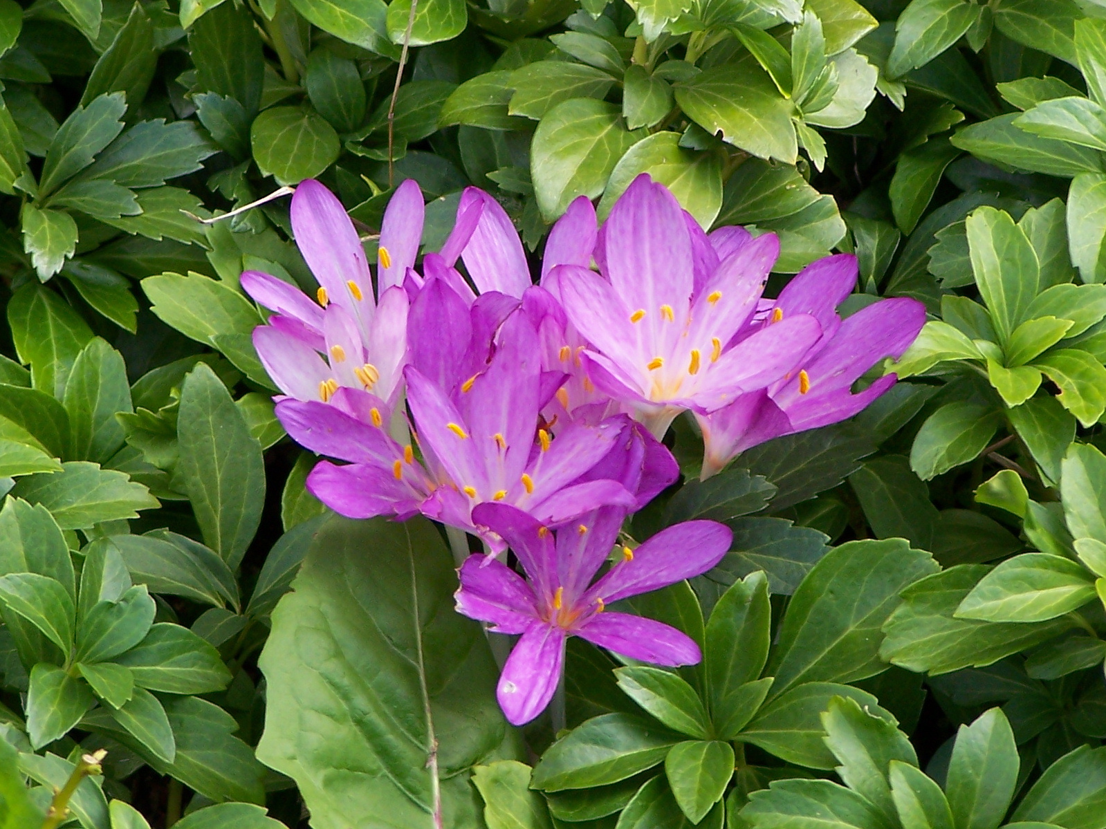 Autumn crocus.